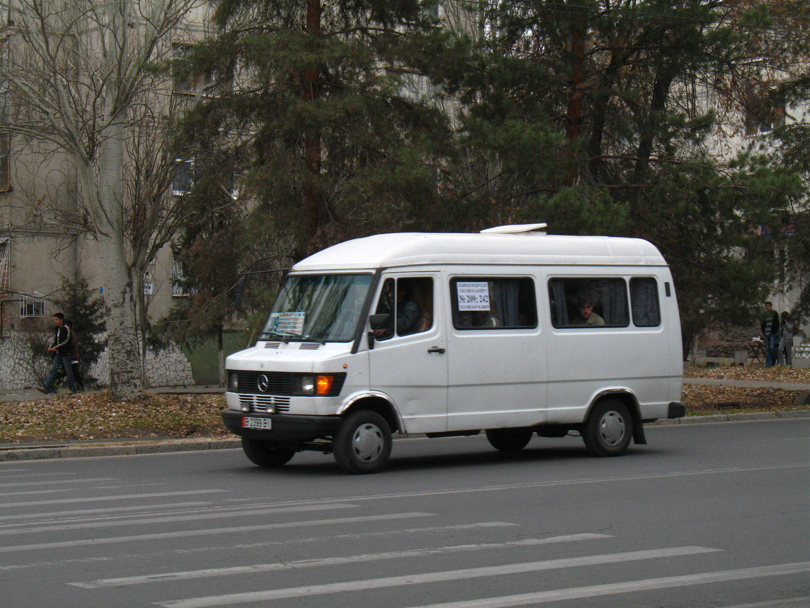 A typical Central Asian marshrutka. Bishkek in Kyrgyzstan.